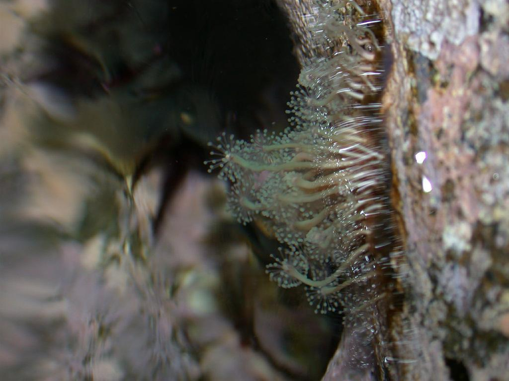 Hydrocoryne miurensis (Hydrocorynidae) Japanese name:ootamaumihidra Date;2005,03,29;Tanabe city, Wakayama prefecture, Japan Author;Keisotyo